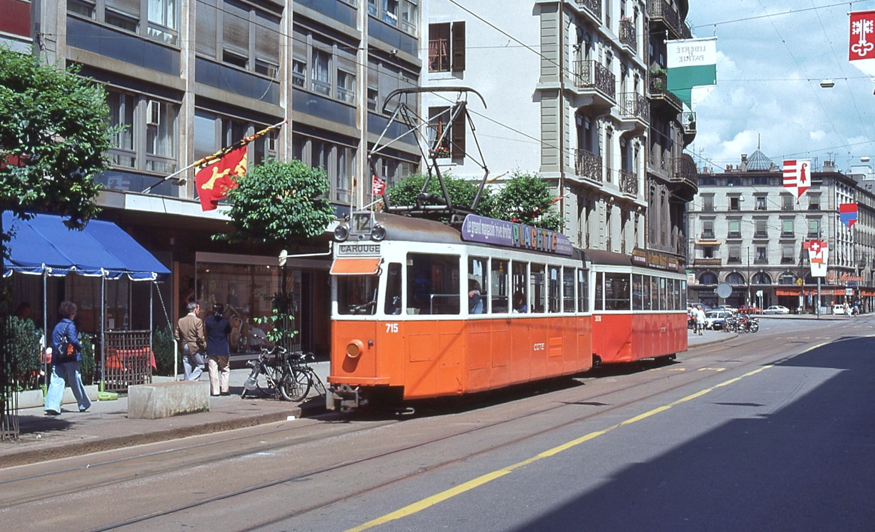 Genève tram 715 + 306 southbound on Rue de Carouge just south of Rond Point de Plainpalais, on what was then the Genève tram system's only route (12). Car 715 was built in 1950 or 1951 by SWP, and trailer 306 was built in 1951 by FFA. No. 306 was sold to Sibiu, Romania, after being retired in Genève.